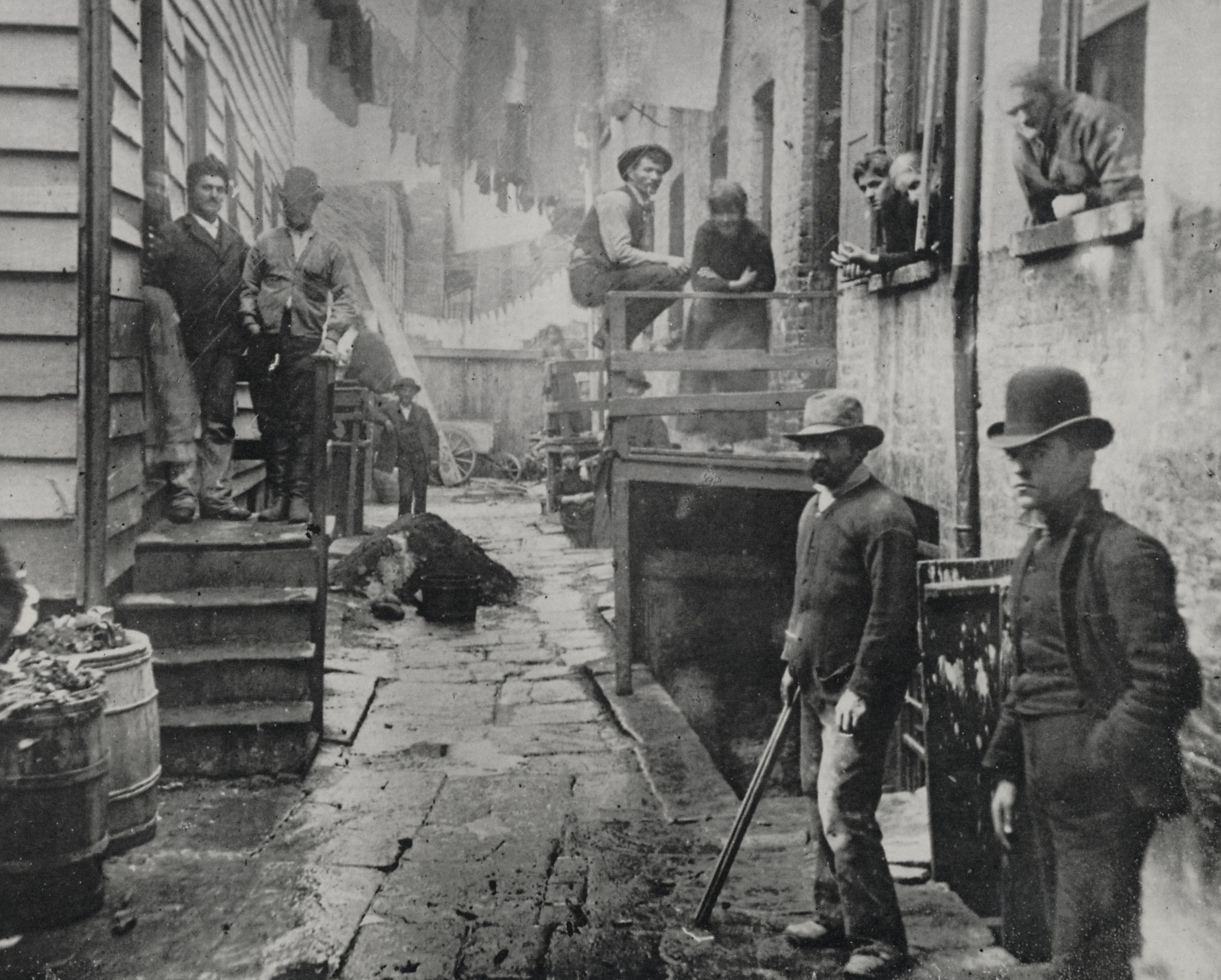 "Bandit's Roost, 1890, New York City." Photograph by Jacob Riis, featured in his book How the Other Half Lives (1890)